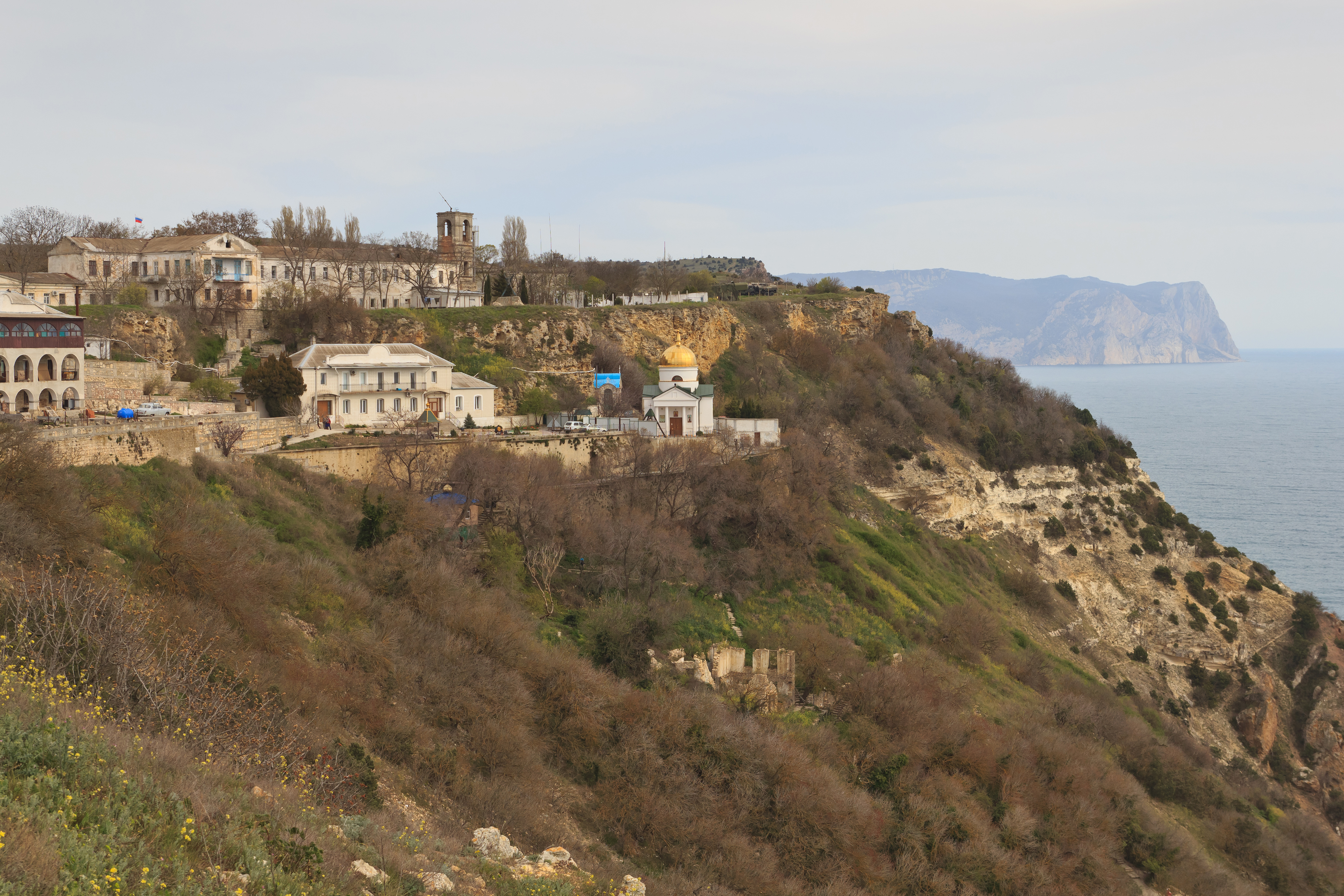 View to the Saint George Monastery at Cape Fiolent in the Federal City of Sevastopol. Crimean peninsula.